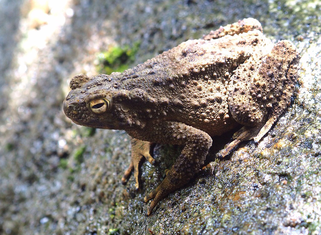 An Asian Giant Toad from Nakhon Si Thammarat, Thailand